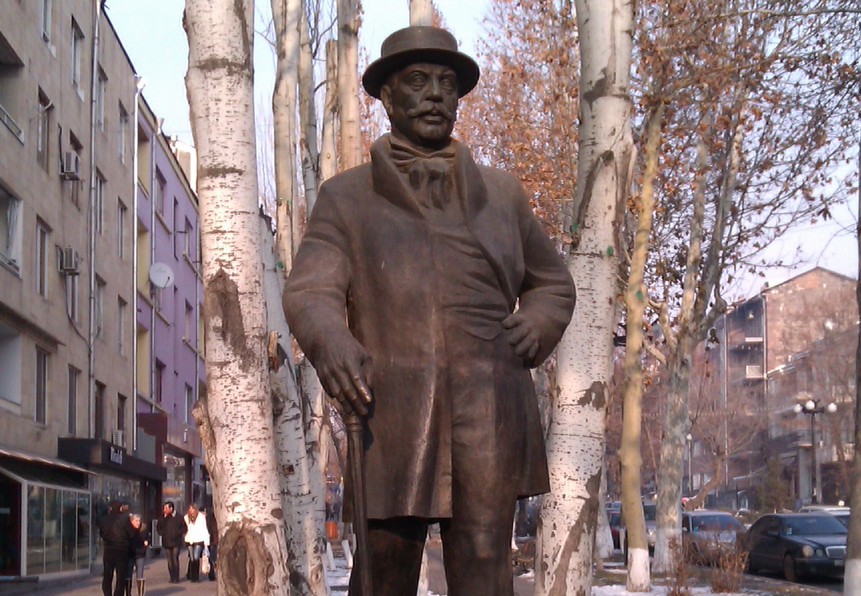 The statue of Alexander Mantashev on Abovyan street, Yerevan Armenia.